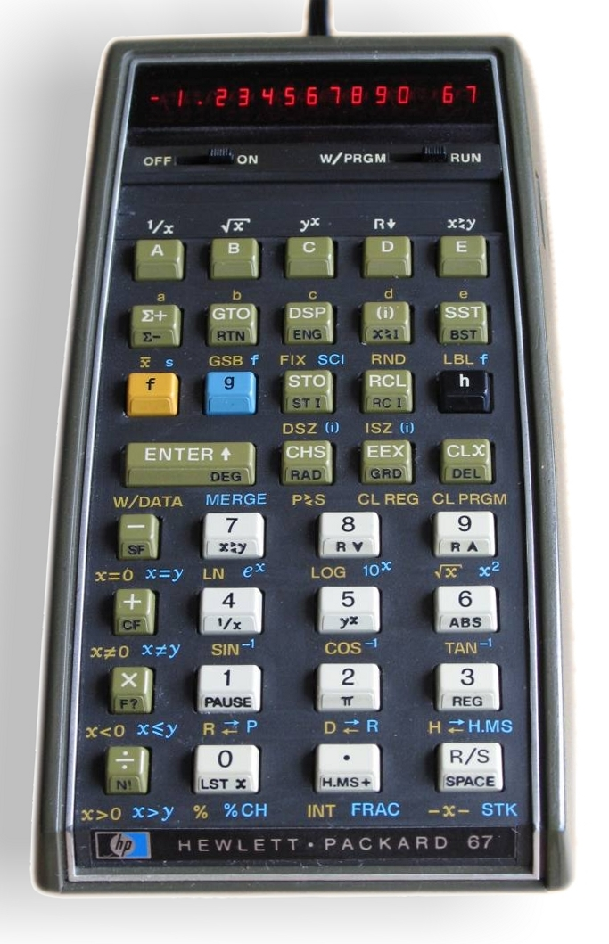 HP-67 powered on with the card slots visible on the right-hand side. Note the key functions printed under the keys